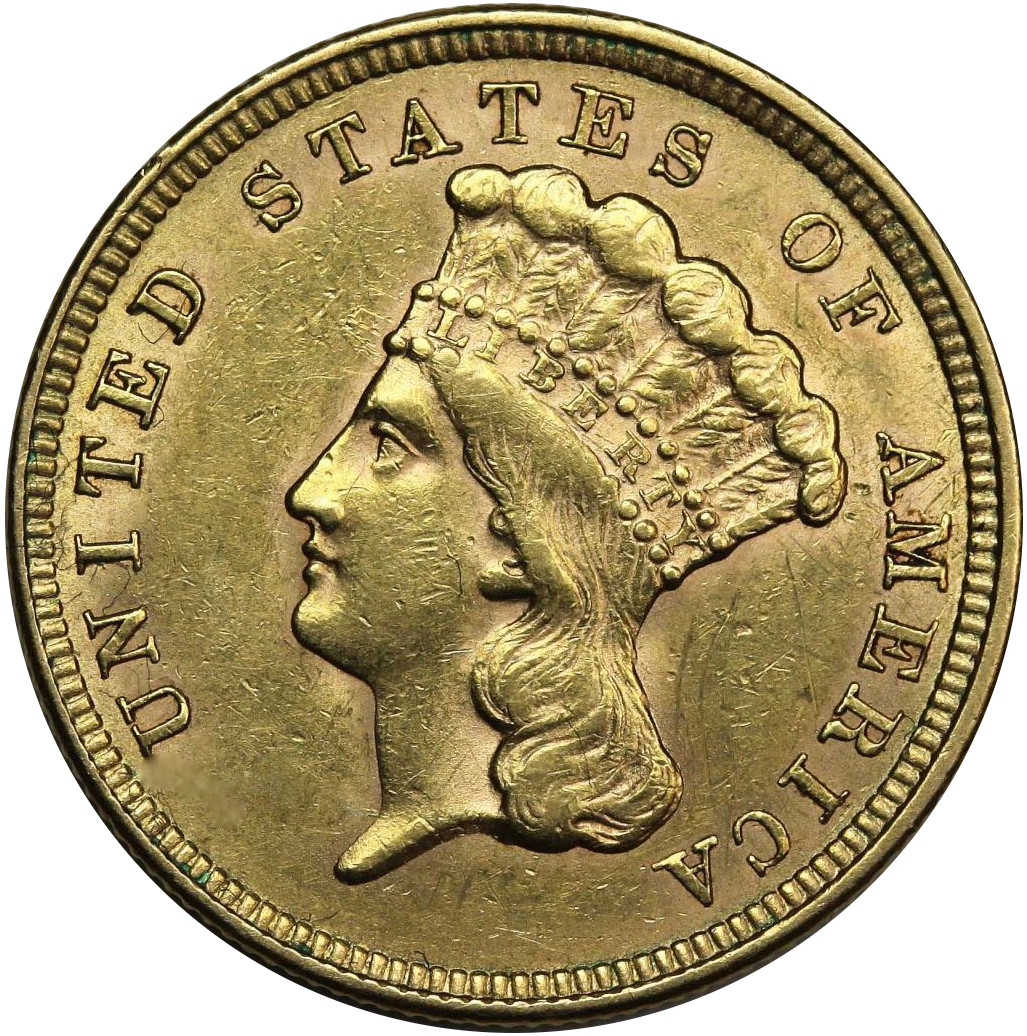 Obverse of a 1854 Three-dollar piece